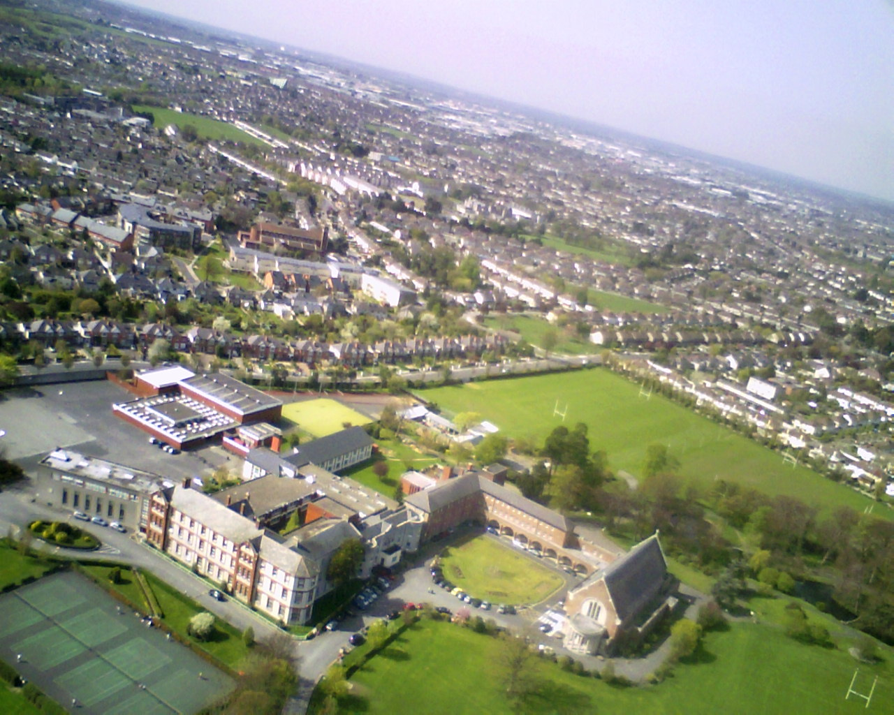 Aerial Photo of Terenure College with Dublin in the background taken from a remote controlled airplane.